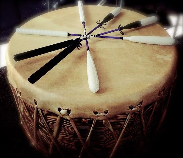 Purple Spirit Drum